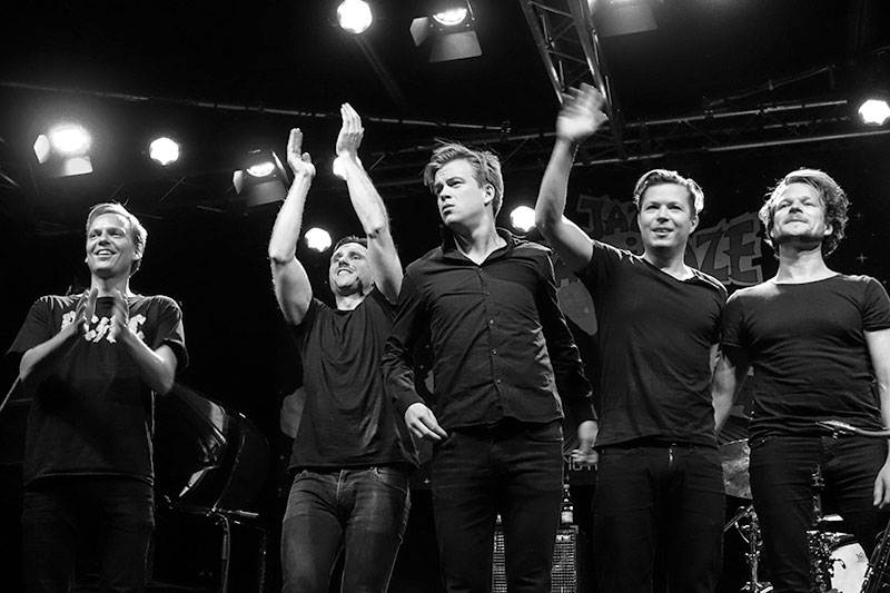 JazzKamikaze during their 10 years anniversary concert